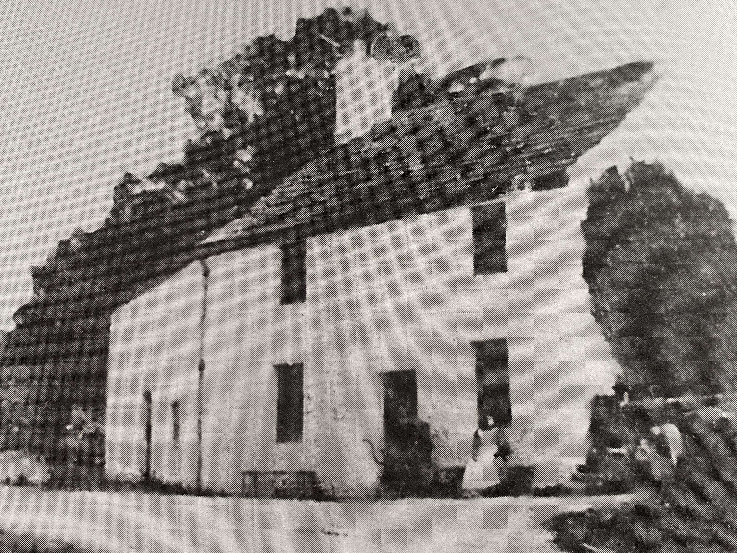 Royal Oak on Manchester Road in Buxton